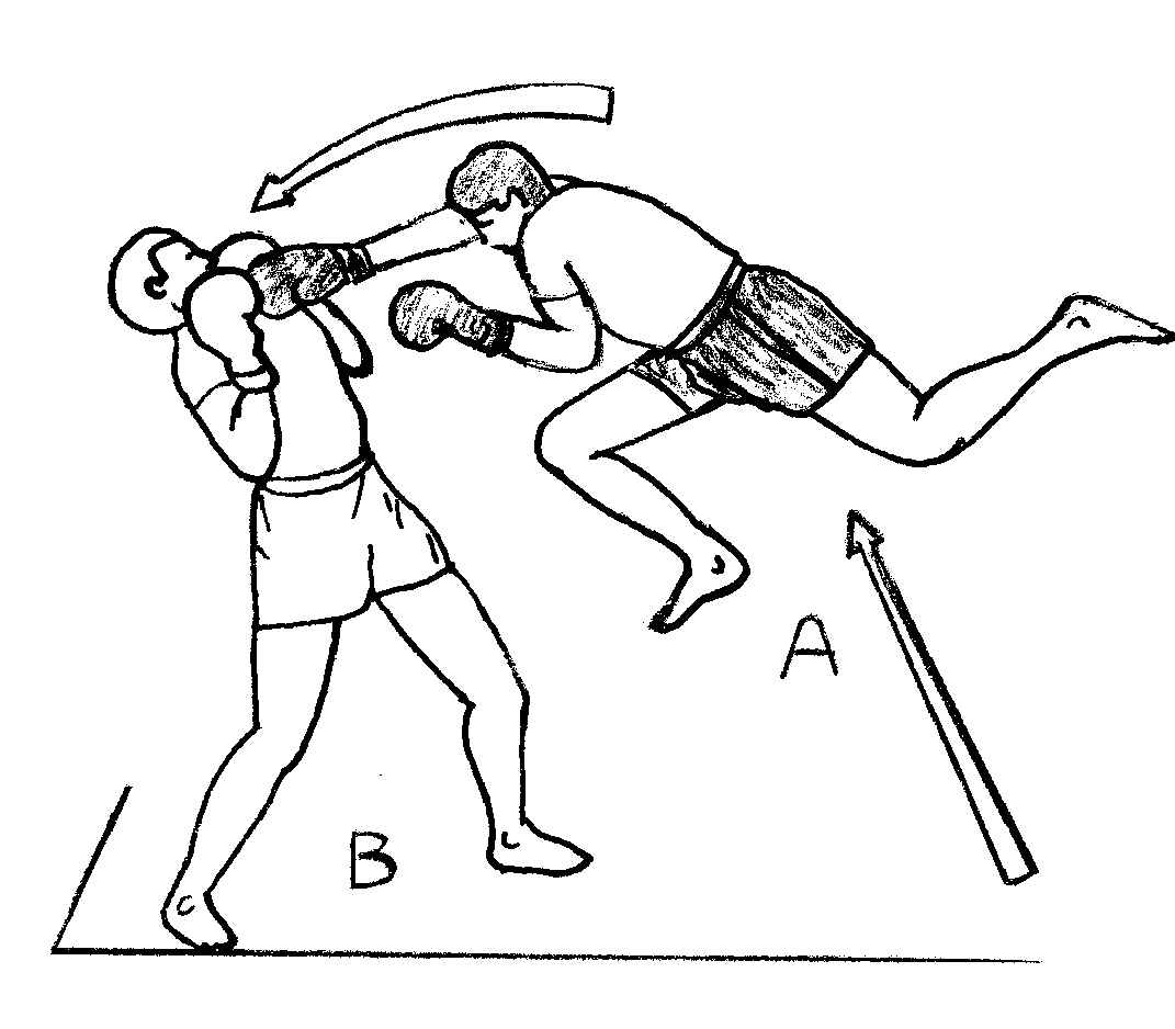 Butterfly-punch